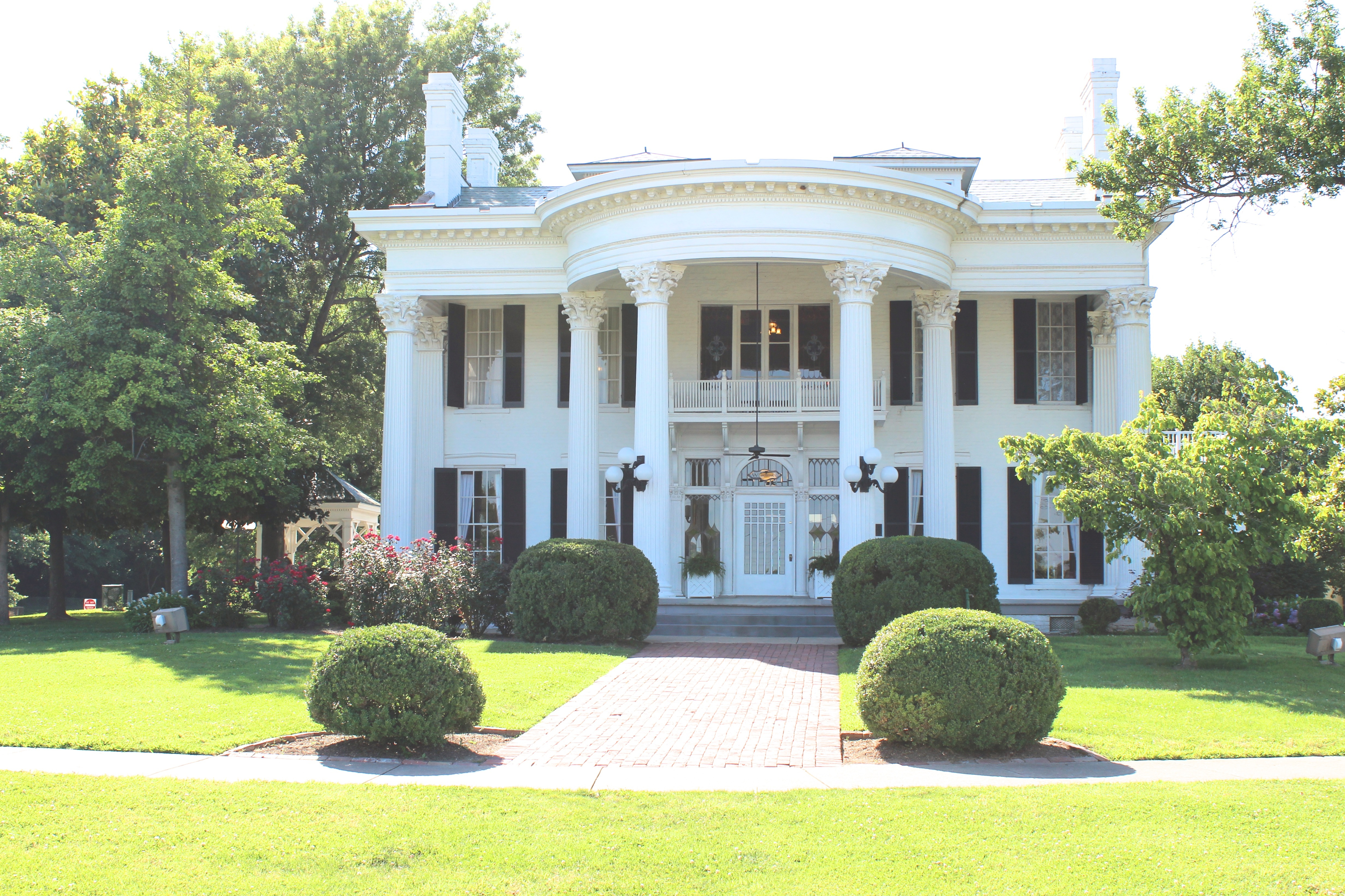 Whitehaven (Anderson-Smith House), Paducah, McCracken County, Kentucky.